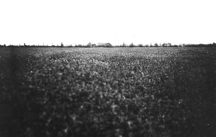 Subject: Alfalfa field, T & T Ranch, Amargosa Valley, Nevada, ca. 1920. Ranch House and outbuildings are visible in the distance.